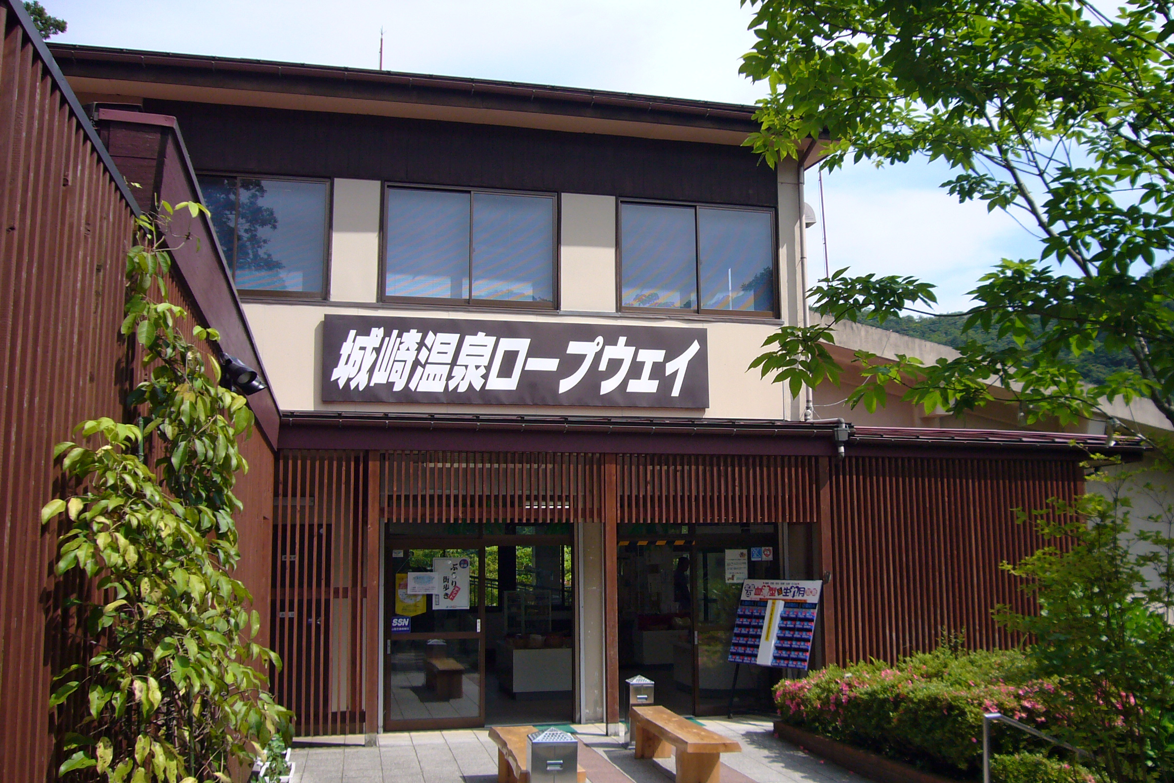 Kinosaki Ropeway, Toyooka, Hyogo prefecture, Japan